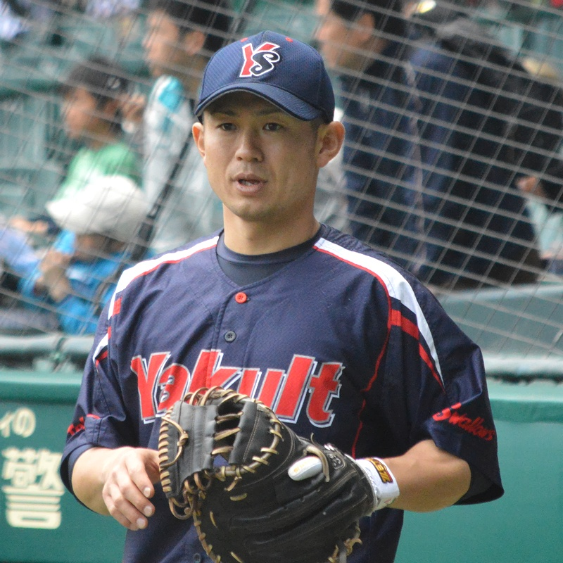 Masahiko Tanaka, catcher of the Tokyo Yakult Swallows, at Hanshin Koshien Stadium.